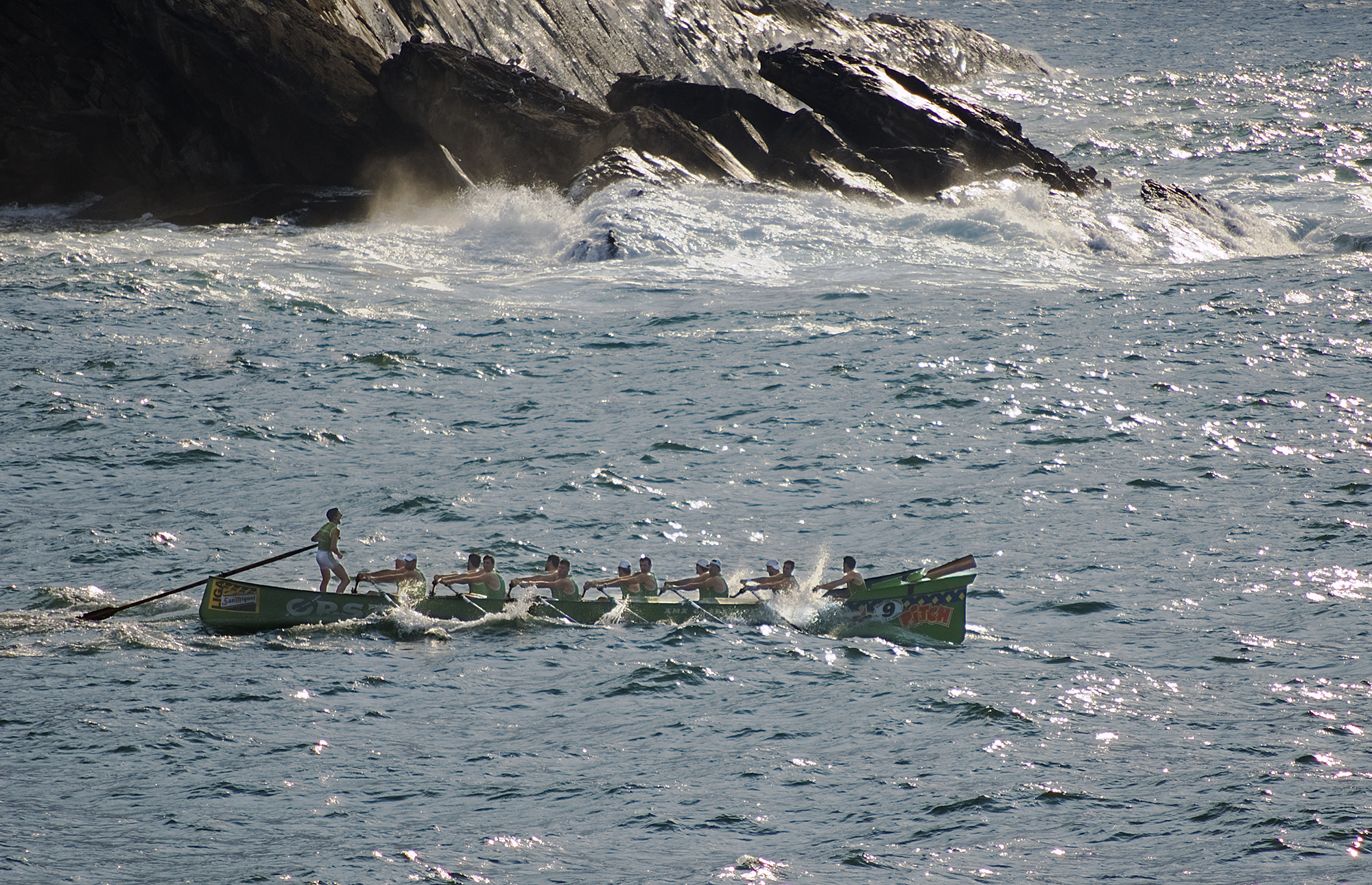 Classification run for the Flag of La Concha competition. The seven best times classificated for the race held on the first two weekends of September 2007. This team is Hondarribia, which with a time of 20'56.36" did 1st.